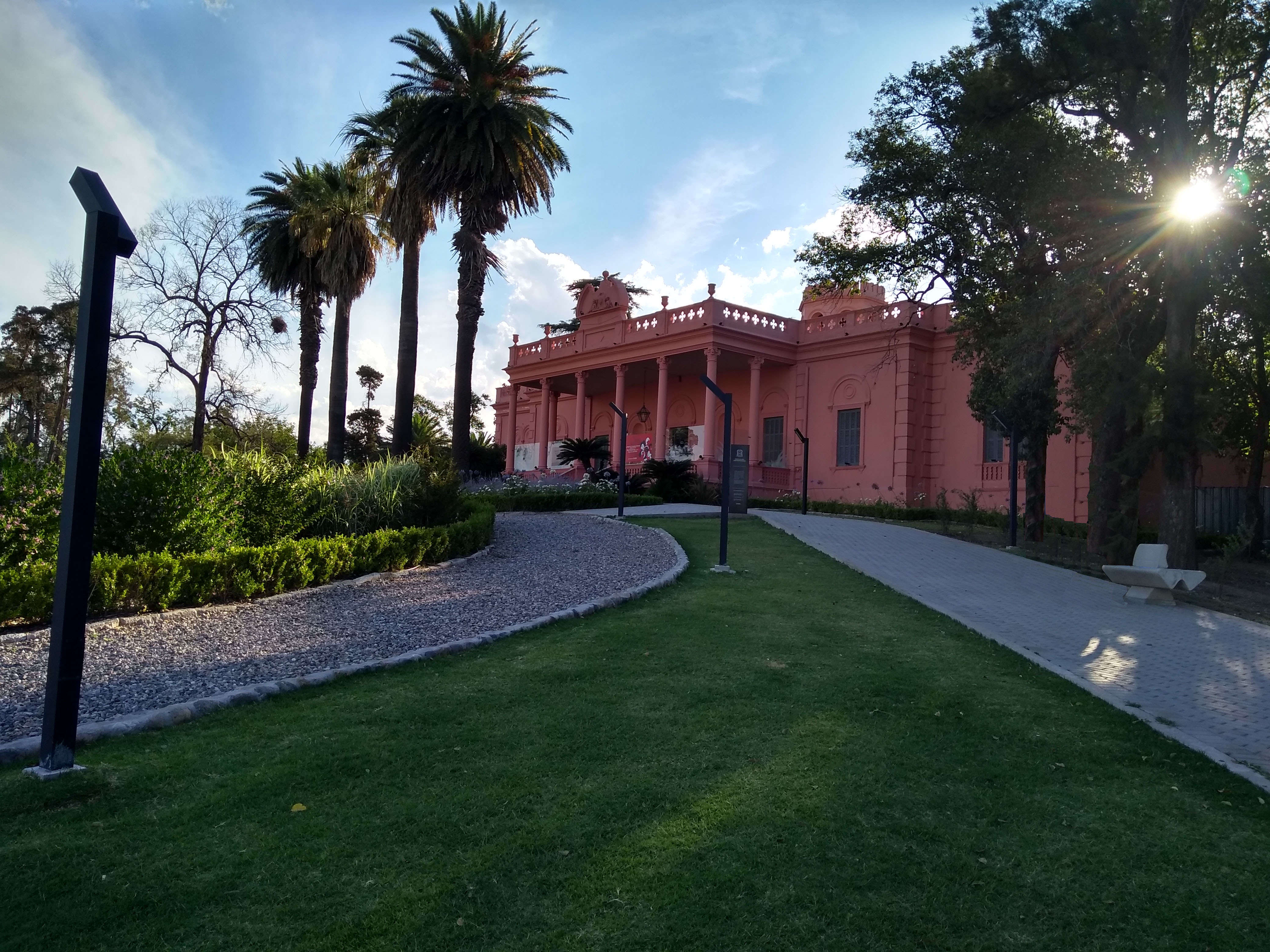 Chateau Carreras Palace, Córdoba, Agentina